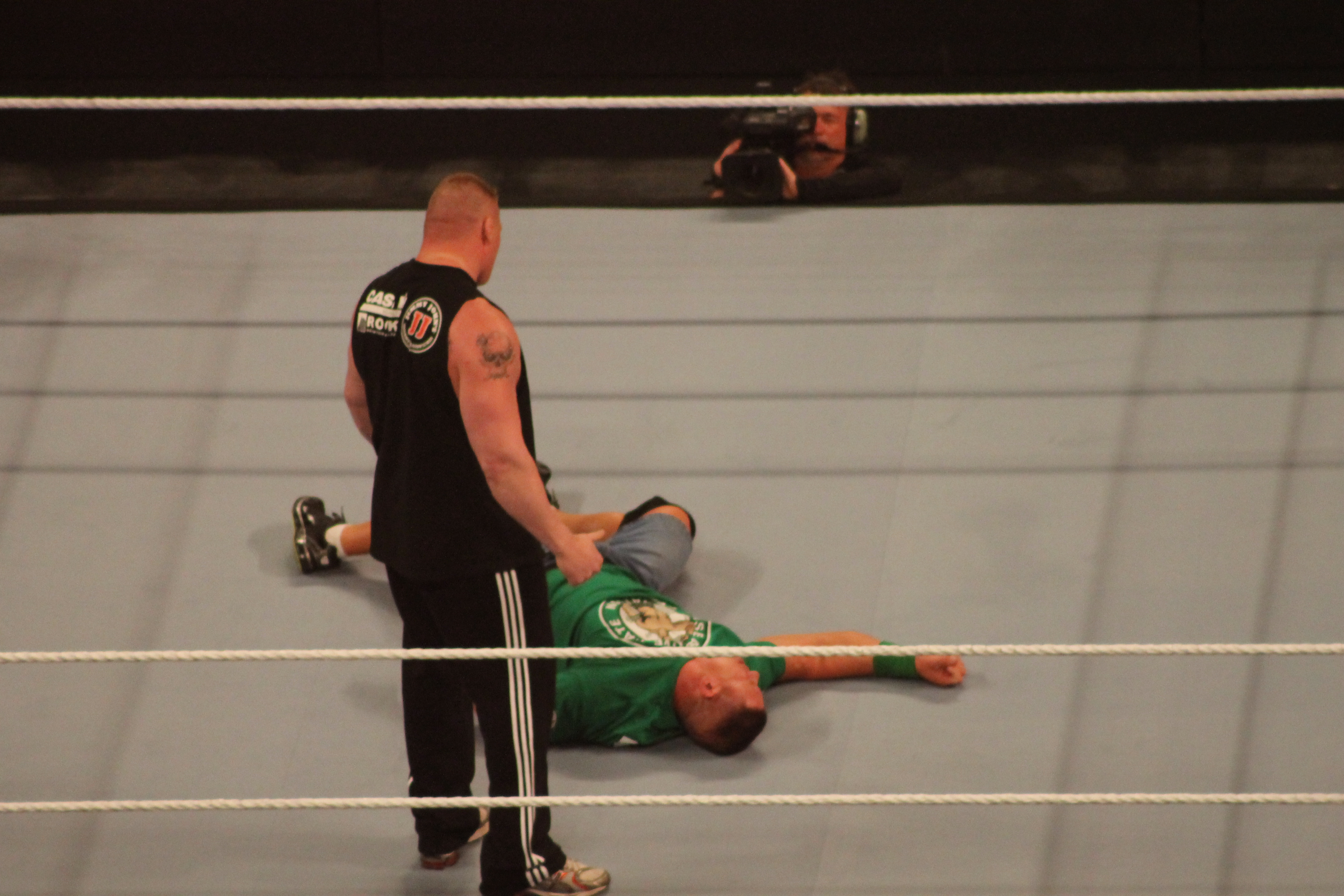 After delivering an F5, Brock Lesnar stands over John Cena the night after Wrestlemania XXVIII